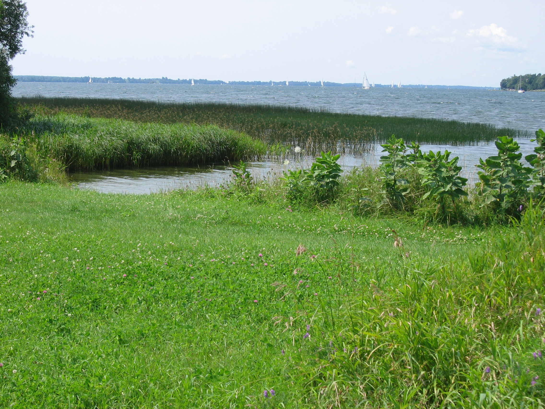 Marshy shoreline of Lemoine Point Conservation Area on Collins Bay, opening into Lake Ontario, with Amherst Island in the distance.